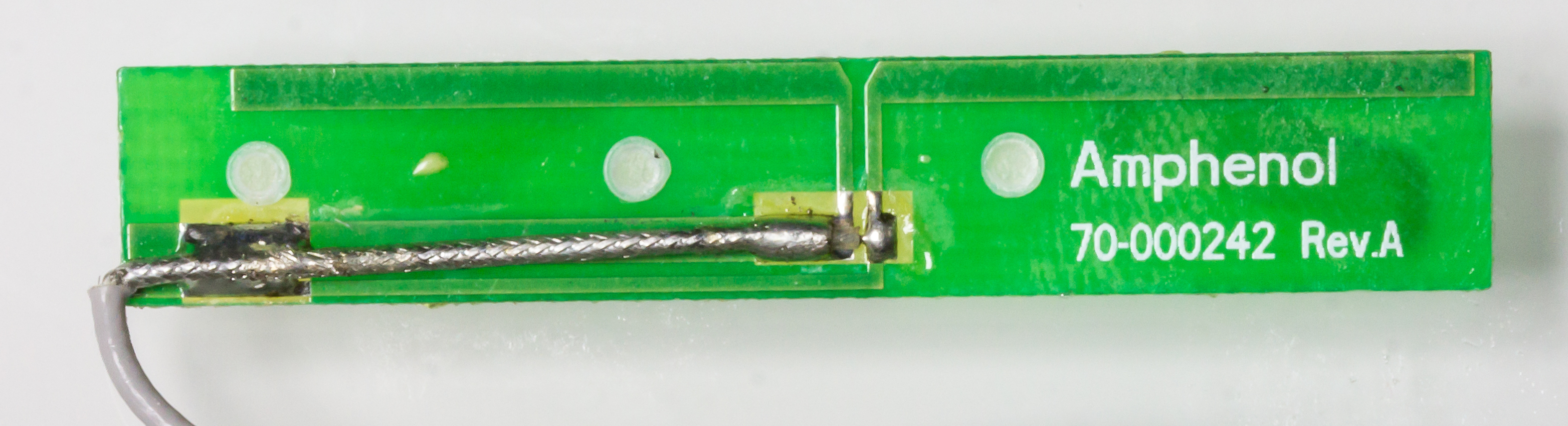 Half-wave dipole (λ/2) on a printed circuit board (WiFi usage with 2.45 GHz) and an antenna coupling designed as an end-short λ/4 stub. The coupling is a λ/4-transformation (a so called sleeve balun) to match the coaxial cable with a characteristic impedance of 50 Ω to the voltage-feded half-wave dipole.